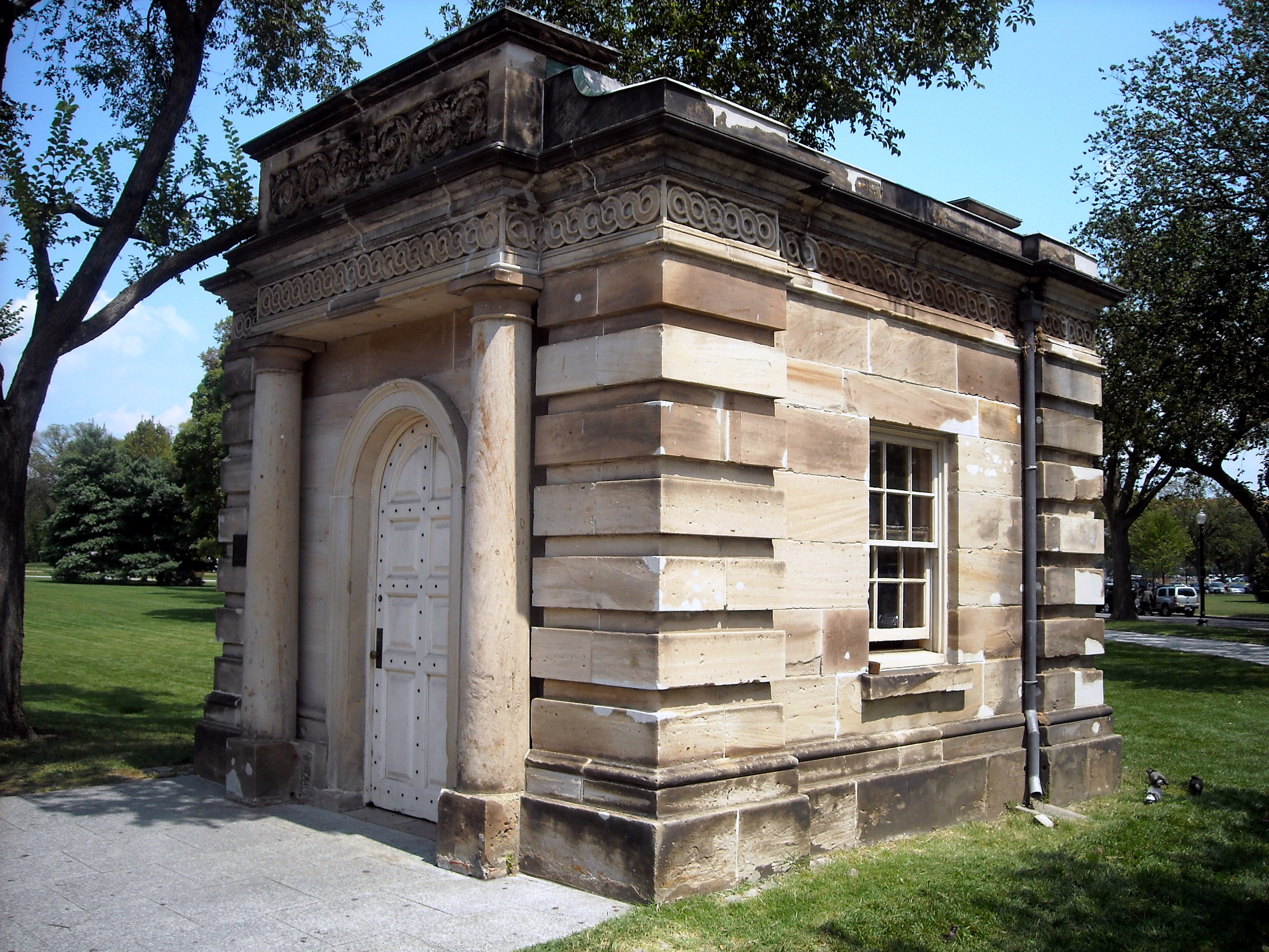 One of the Bulfinch Gatehouses (also known as the U.S. Capitol Gatehouses) located at 17th Street and Constitution Avenue, NW in Washington, D.C. It was designed by Charles Bulfinch in 1825 and is listed on the National Register of Historic Places.